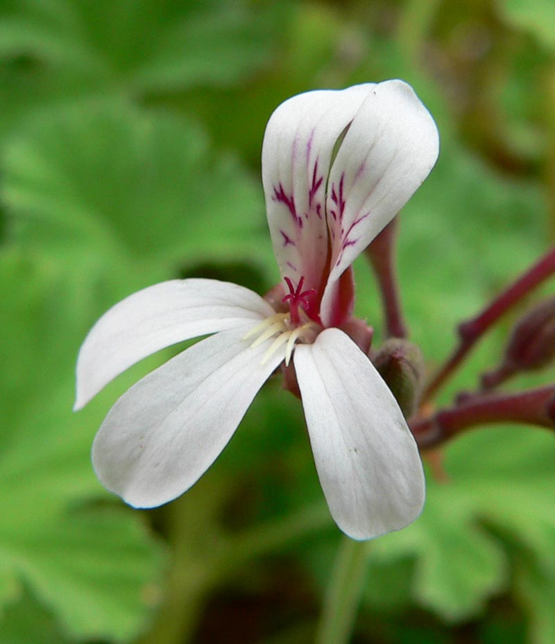 Photo of Pelargonium odoratissimum at the San Francisco Botanical Garden